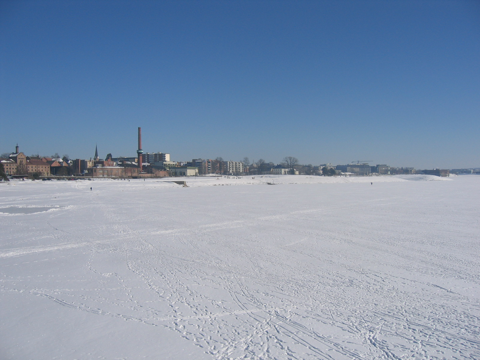 Overview of Hamar, Hedmark. Eastbound view, lake Mjøsa in foreground.